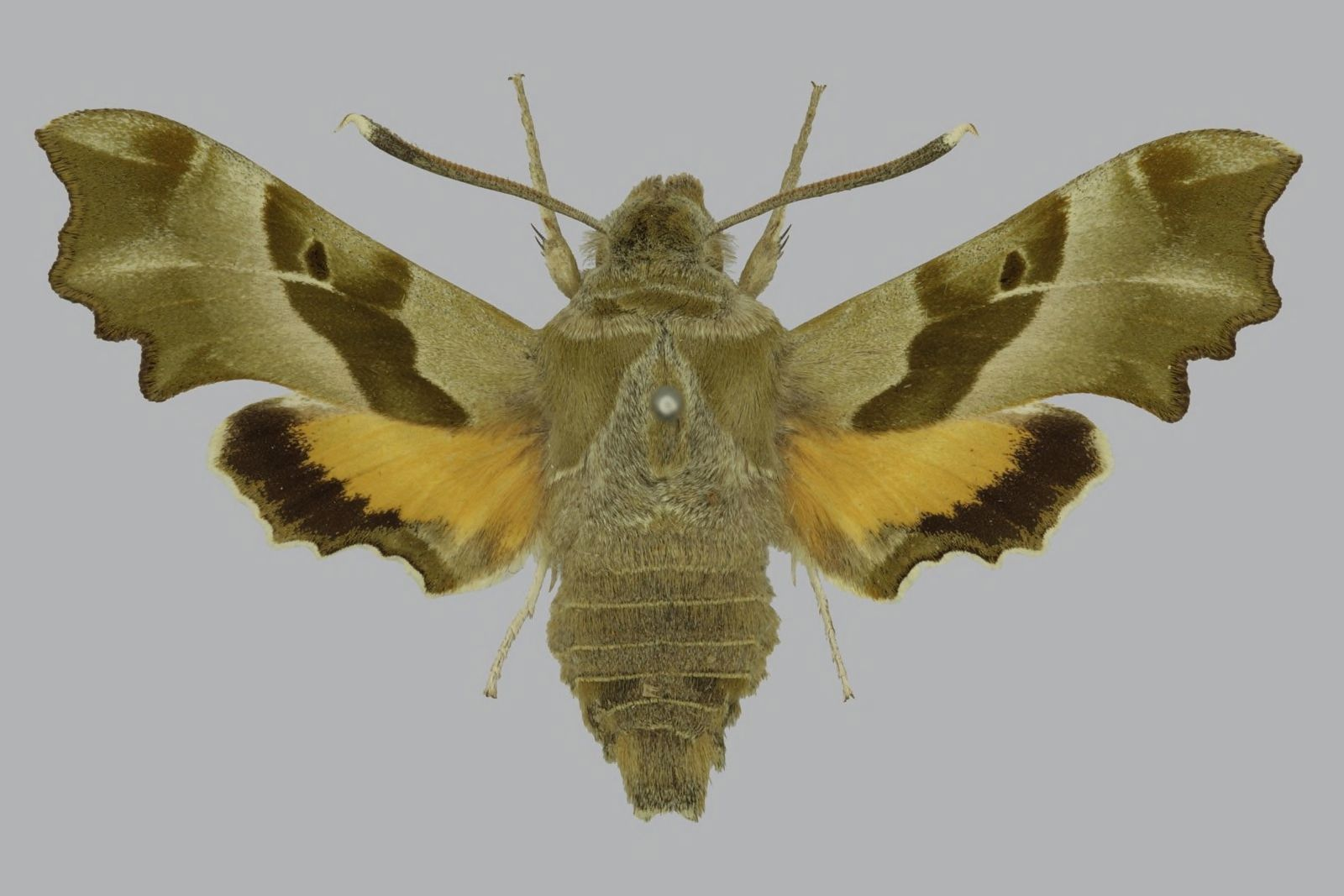 Proserpinus proserpina, male, upperside. Switzerland, Wallis